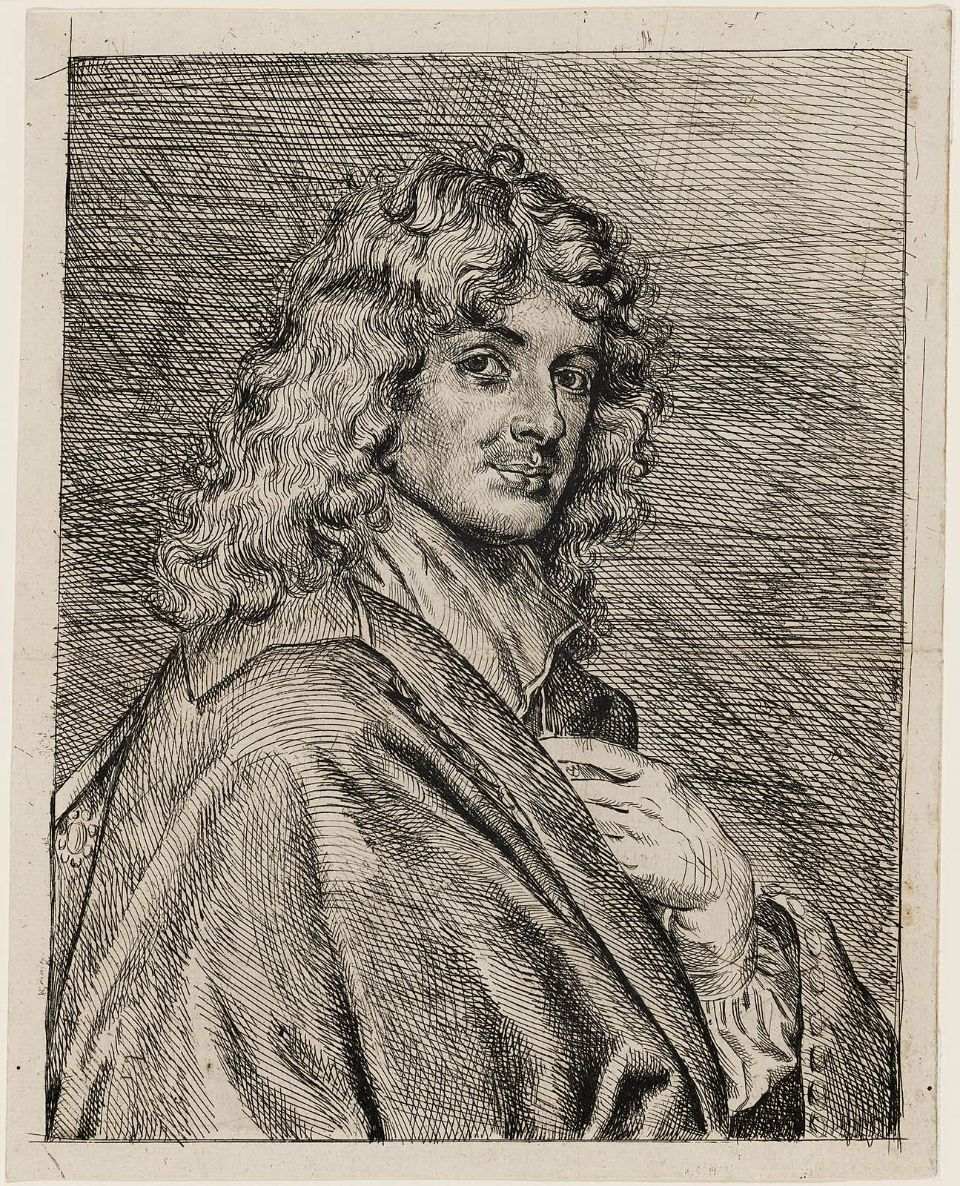 Self-portrait by Claude Lefèbvre. Etching; 25.8 x 20.7 cm (sheet); 24 x 19 cm (image).